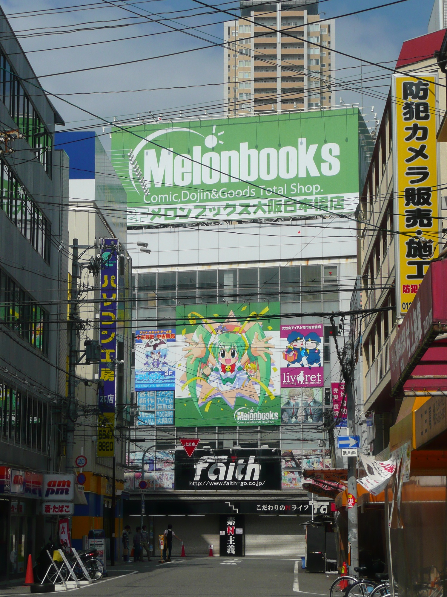 Melonbooks - Osaka Nipponbashi